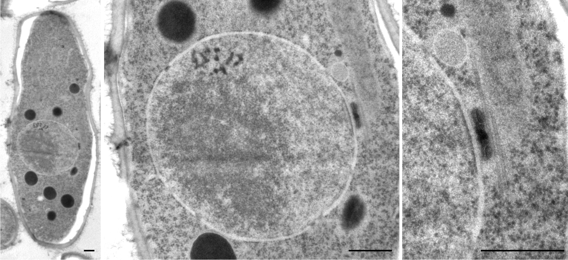 Combined transmission electron microscopic images of Schizosaccharomyces pombe and its centrosome (spindle pole body). Black line represents the length of 500 nm. Image was made with JEOL-1220 in University of Tartu. Osmium tetroxide and uranyl acetate have been used as staining agents.